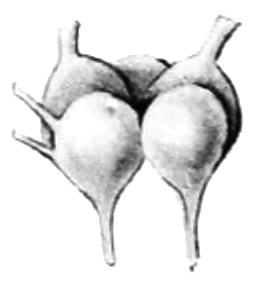 Drawing of cerebral ganglia of Geomalacus maculosus.